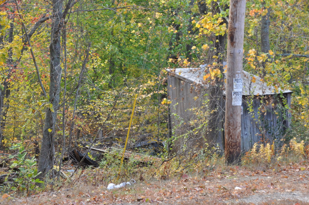 Daniel Aldrich Sawmill remains, Uxbridge, Massachusetts.